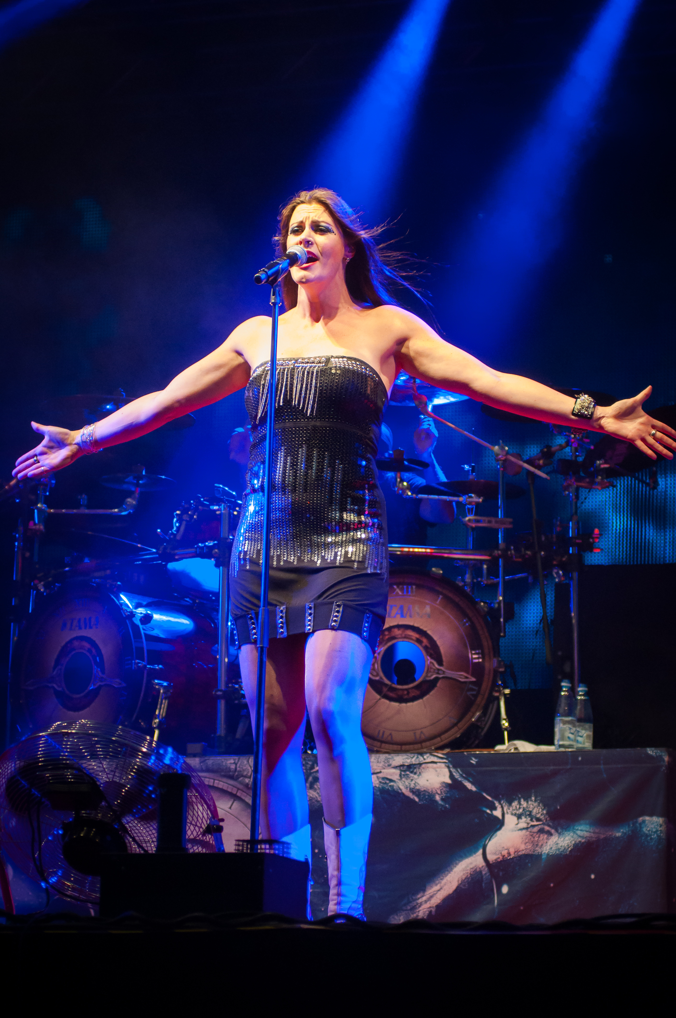 Dutch vocalist Floor Jansen of Nightwish performing at the 2013 Ilosaarirock festival in Joensuu, Finland.